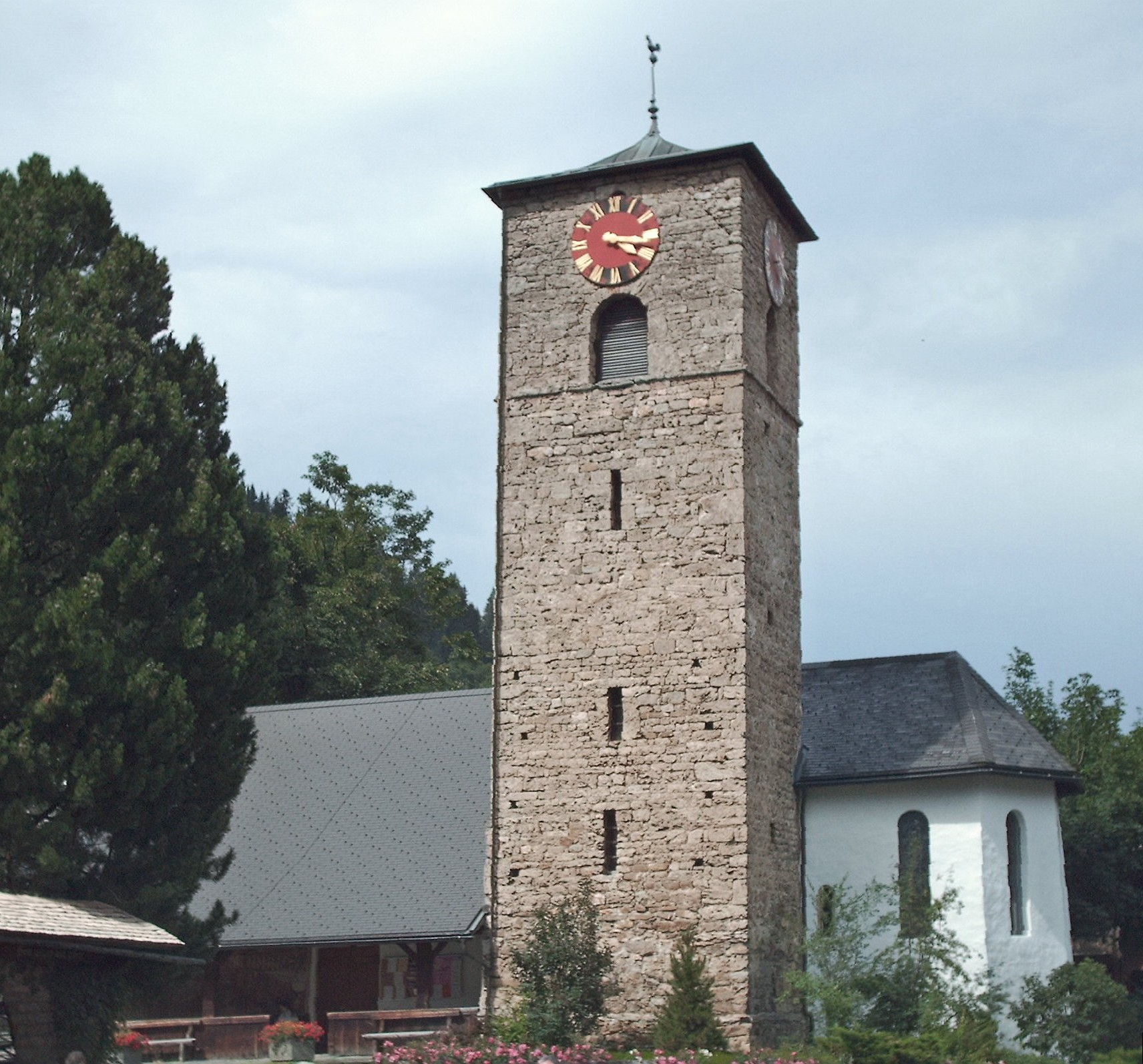 Church of Adelboden, built 1433, Bernese Alps, Switzerland